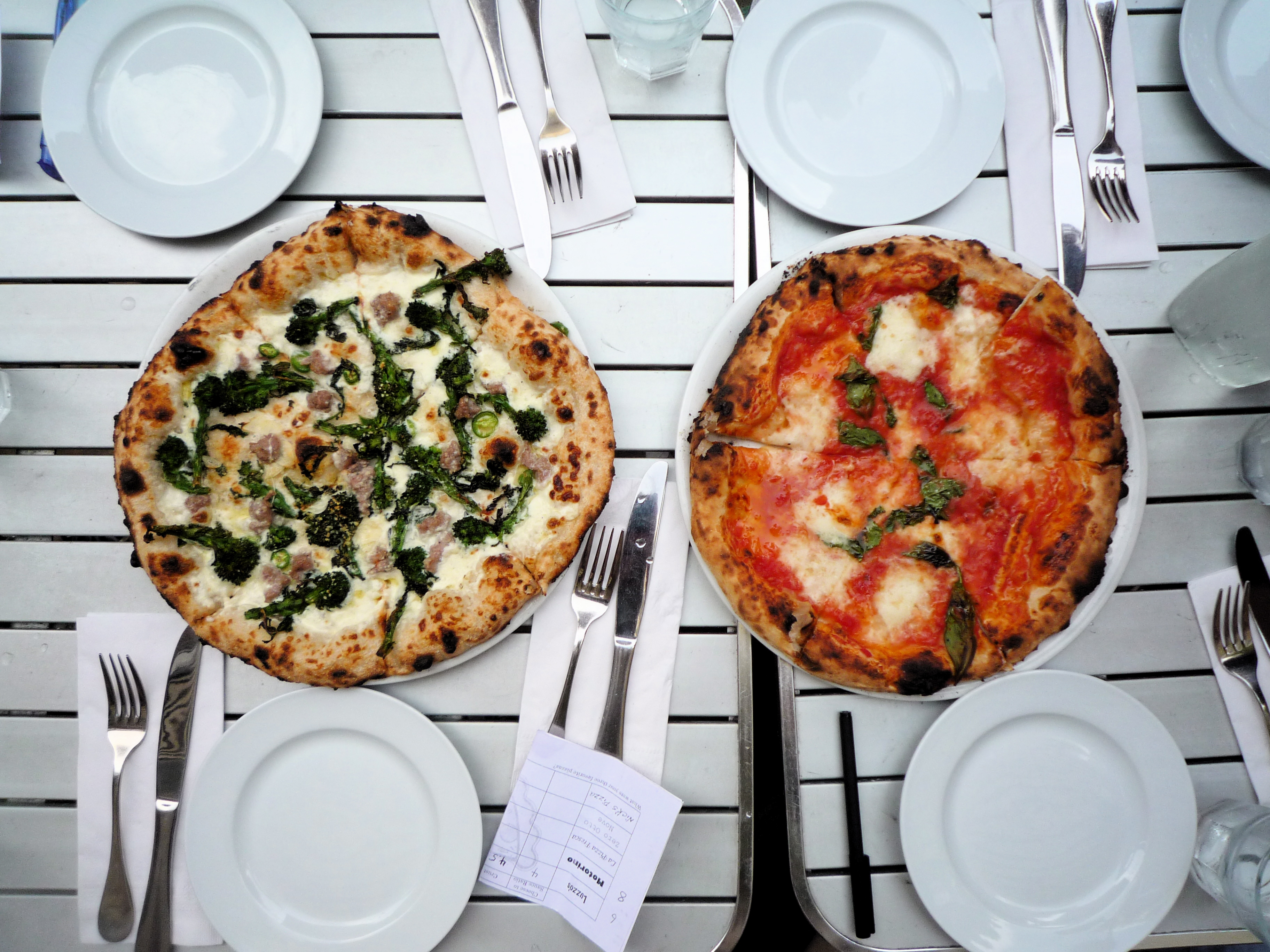 Motorino Williamsburg Pictured left: Spicy Pugliese Pictured right: Margherita DOC NY Magazine's rank: 8/20 My rank: 1/7 Group's rank: (untabulated) Price: $13 Taste for price: 4.5/5 Cheese to sauce ratio: 5/5 Crust: 5/5 Comments: super nice and accommodating (they were closed for a private engagement party but made an exception to seat us in the back garden, then gave us a free pizza!) Perfect charred crust, DOC tangy sauce is perfect, Spicy Pugliese is wonderfully salty